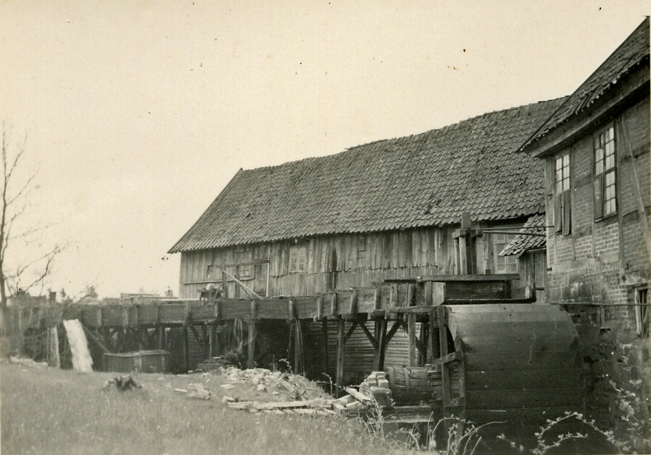 The old sawmill (left) and flour mill (right), each with an overshoot water wheel, on the Weesener Bach, Lower Saxony, Germany, ca 1960